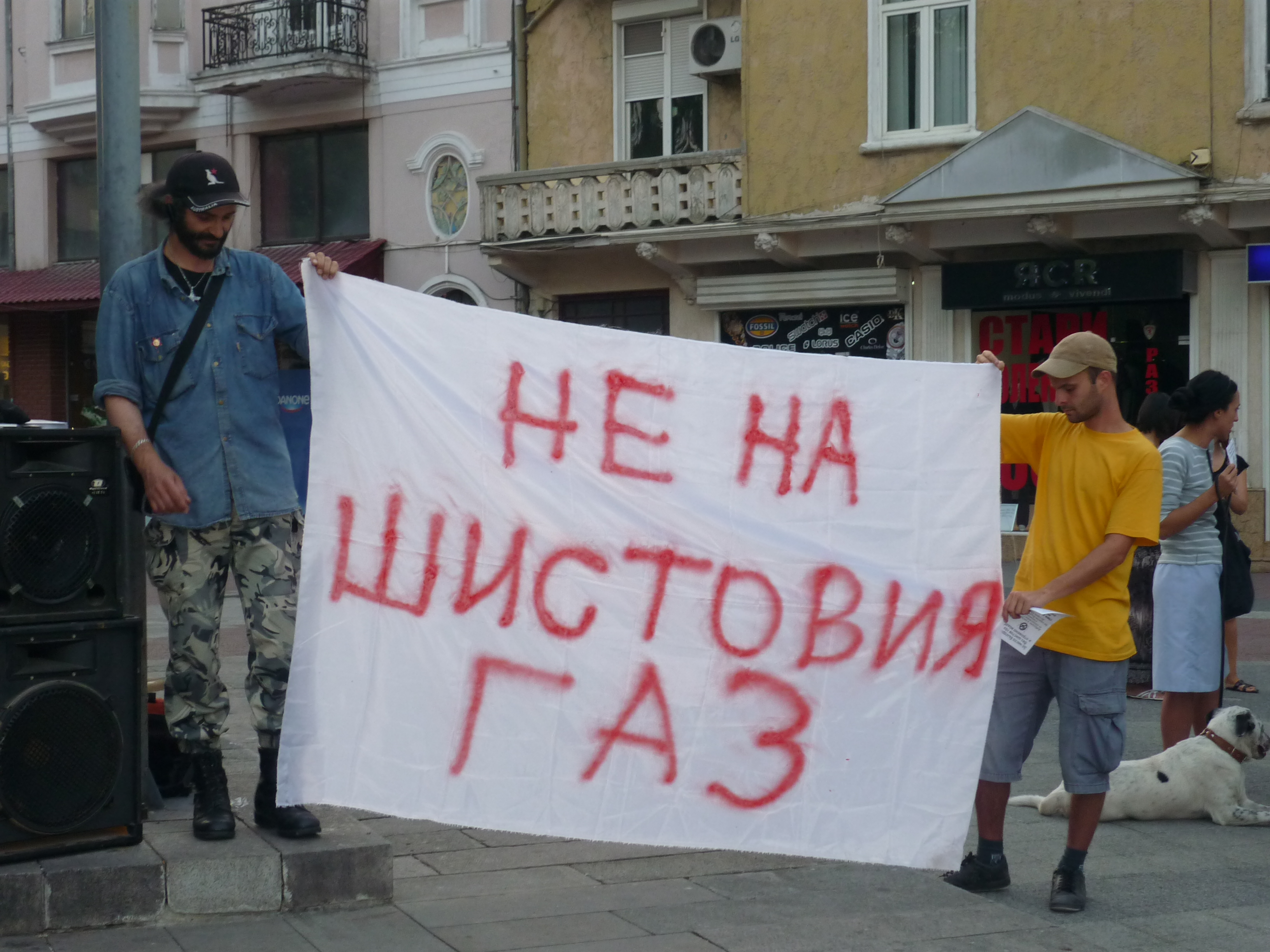 Anti-capitalist group demonstrating against shale gas operations in Bulgaria. Photo taken Sept. 4th, 2011, in Plovdiv, Bulgaria.